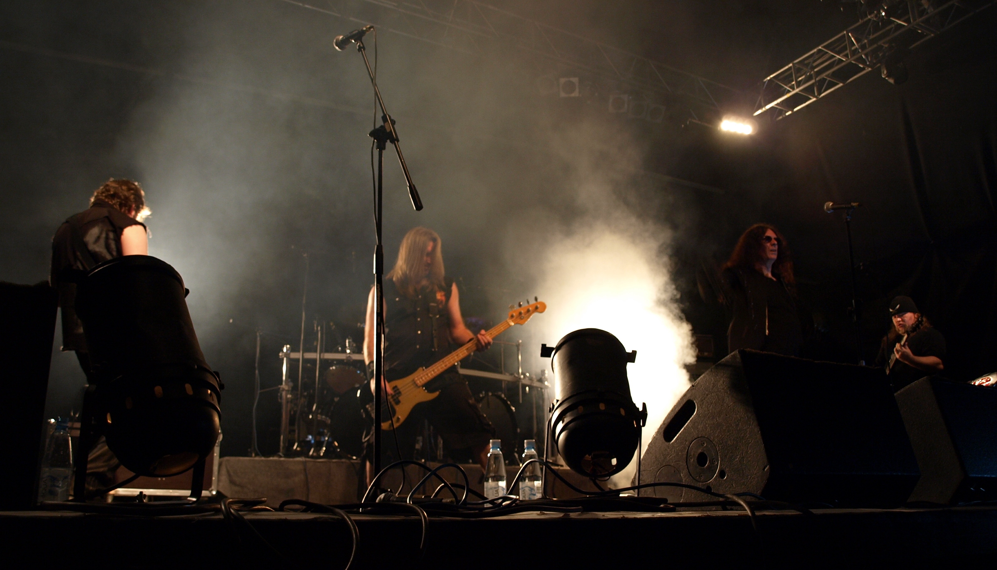 British heavy metal band Blitzkrieg live at Jalometalli 2008 in Oulu.